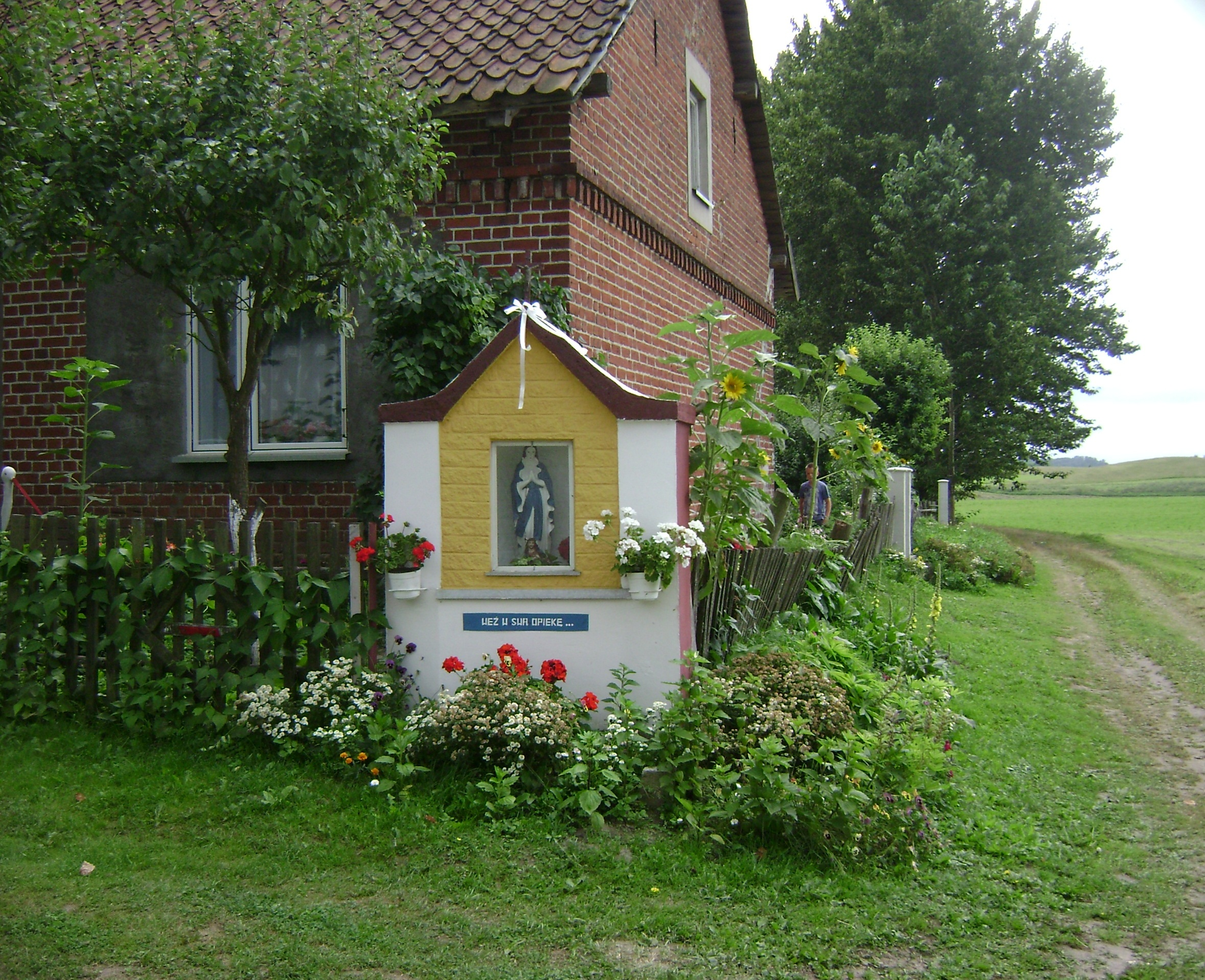 Poland. Szczytno County. Gmina Pasym. Jurgi